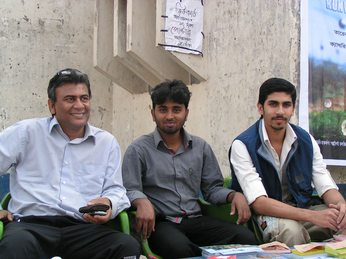 This picture was taken at Sylhet in 2010.